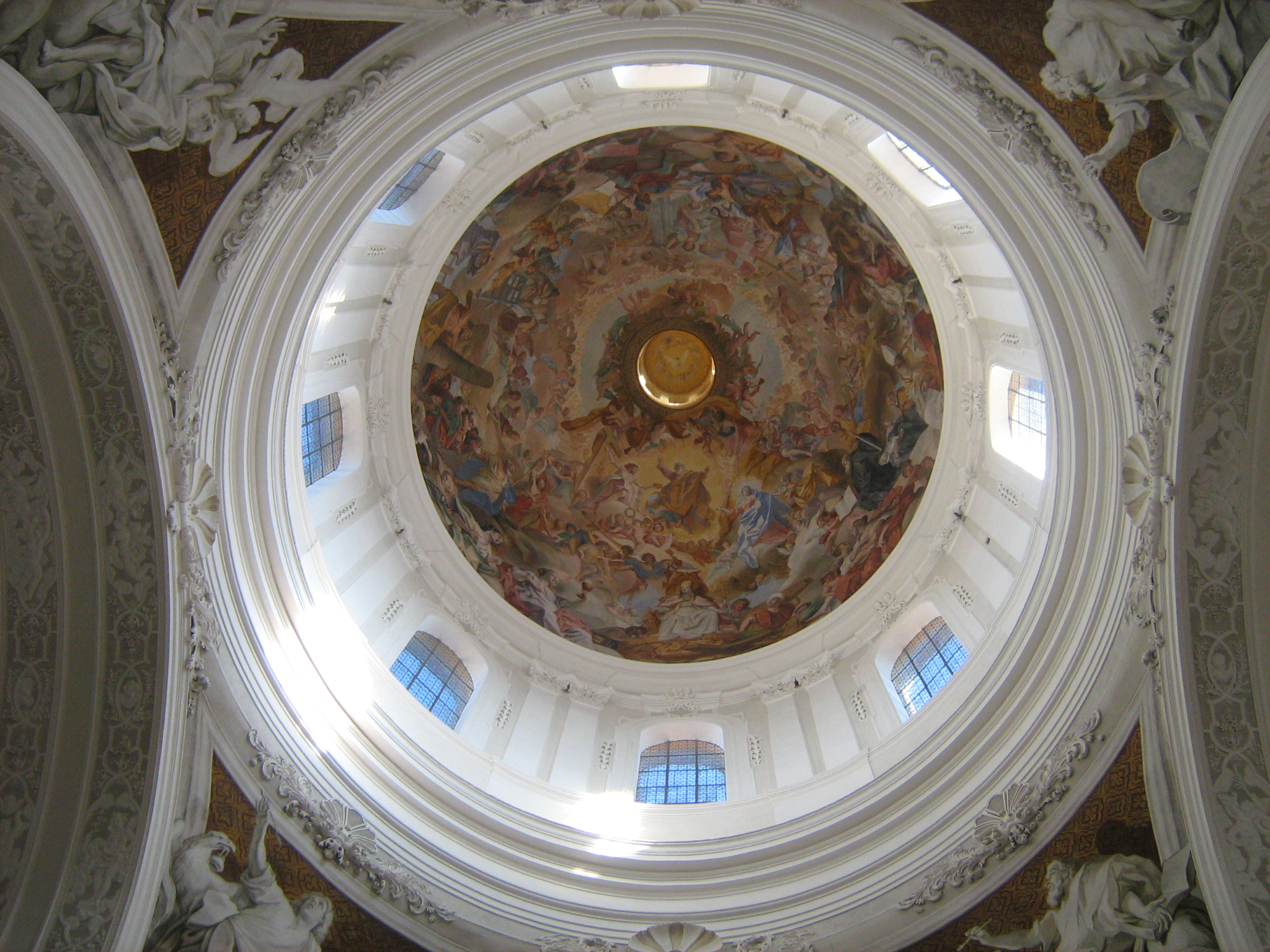 Basilica Weingarten pinturas